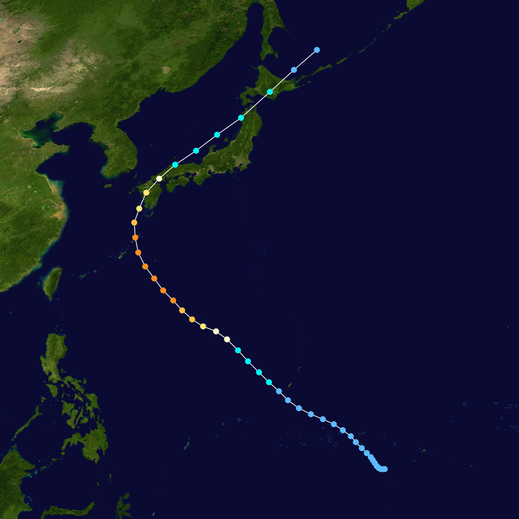 Typhoon Janis 1992 track. Uses the color scheme from the Saffir-Simpson Hurricane Scale.